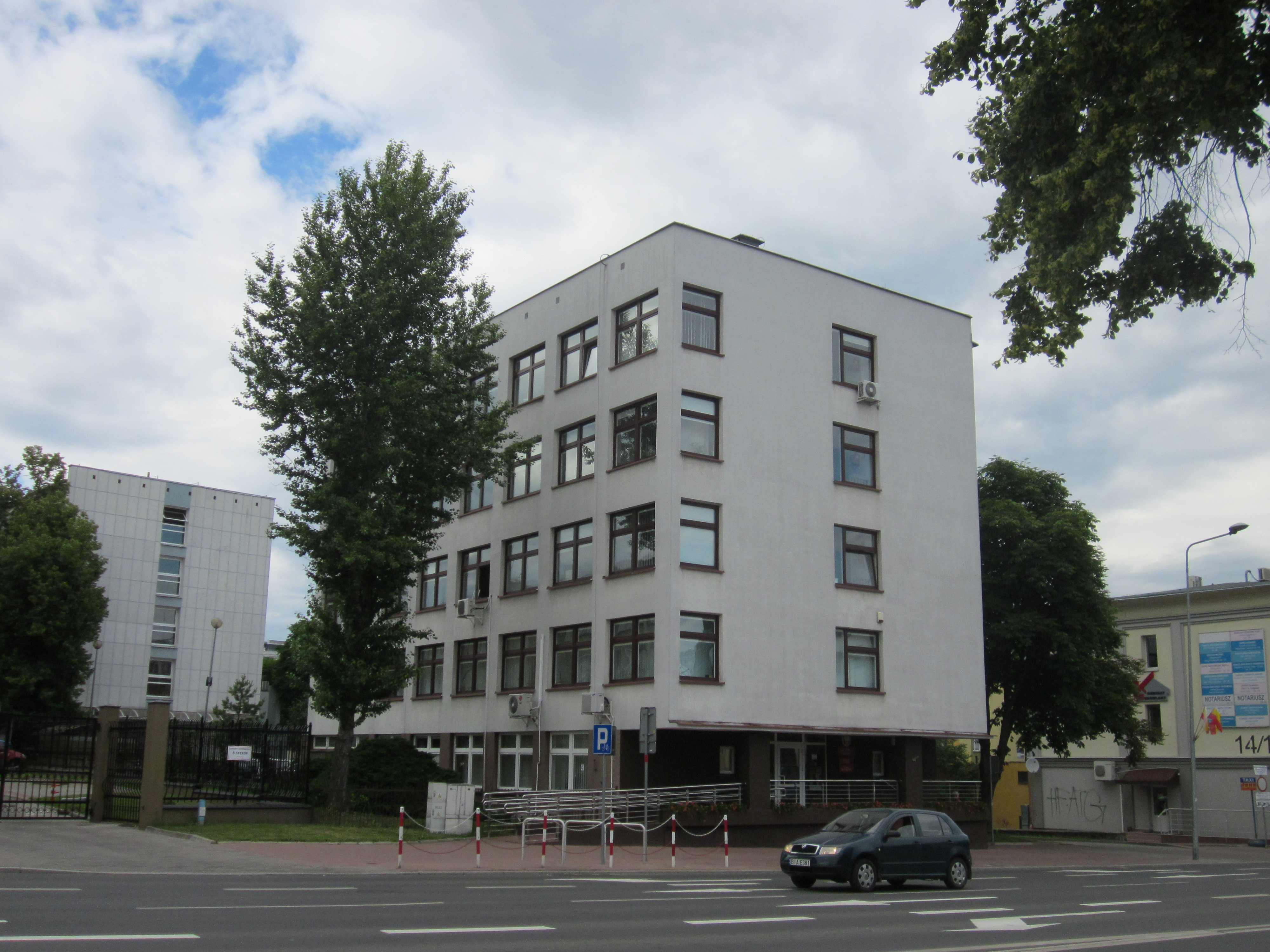 Agricultural Social Insurance Fund in Białystok, at 18 Legionowa street